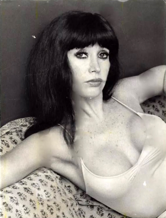 Argentine vedette and actress Moria Casán